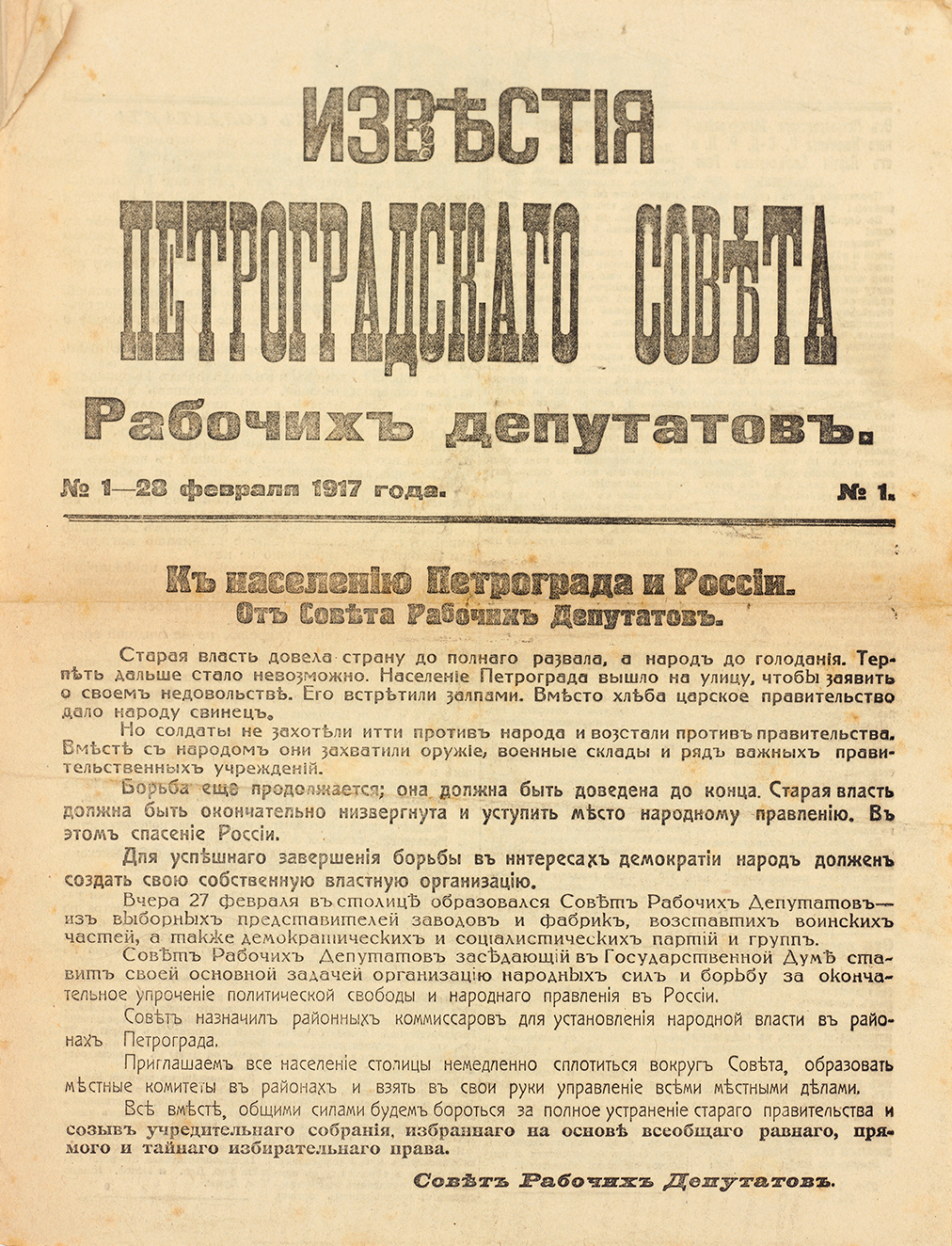 The first issue of the "Izvestia" newspaper. 13 March [O.S. 28 February] 1917